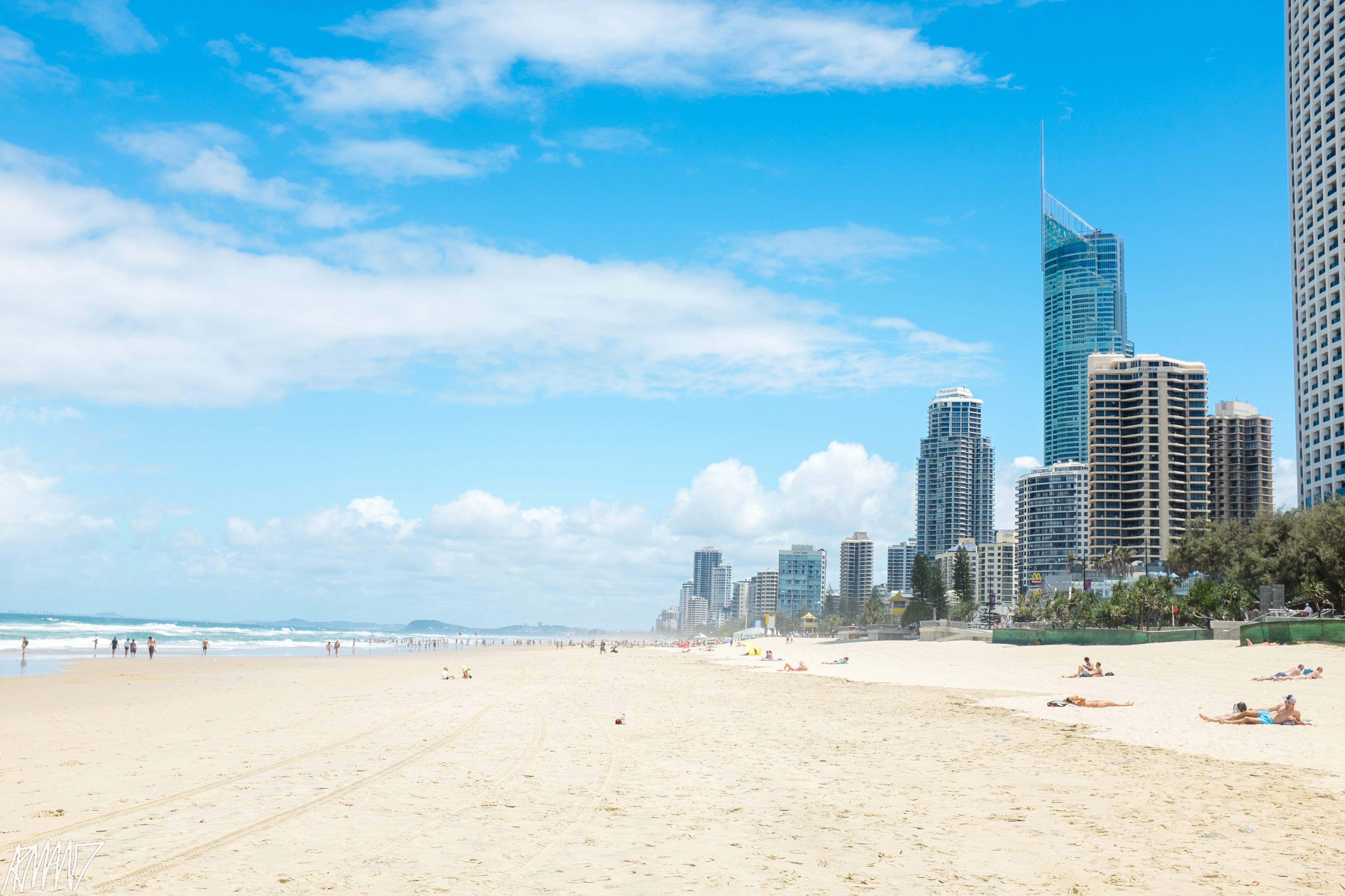 Gold Coast, summer 2015